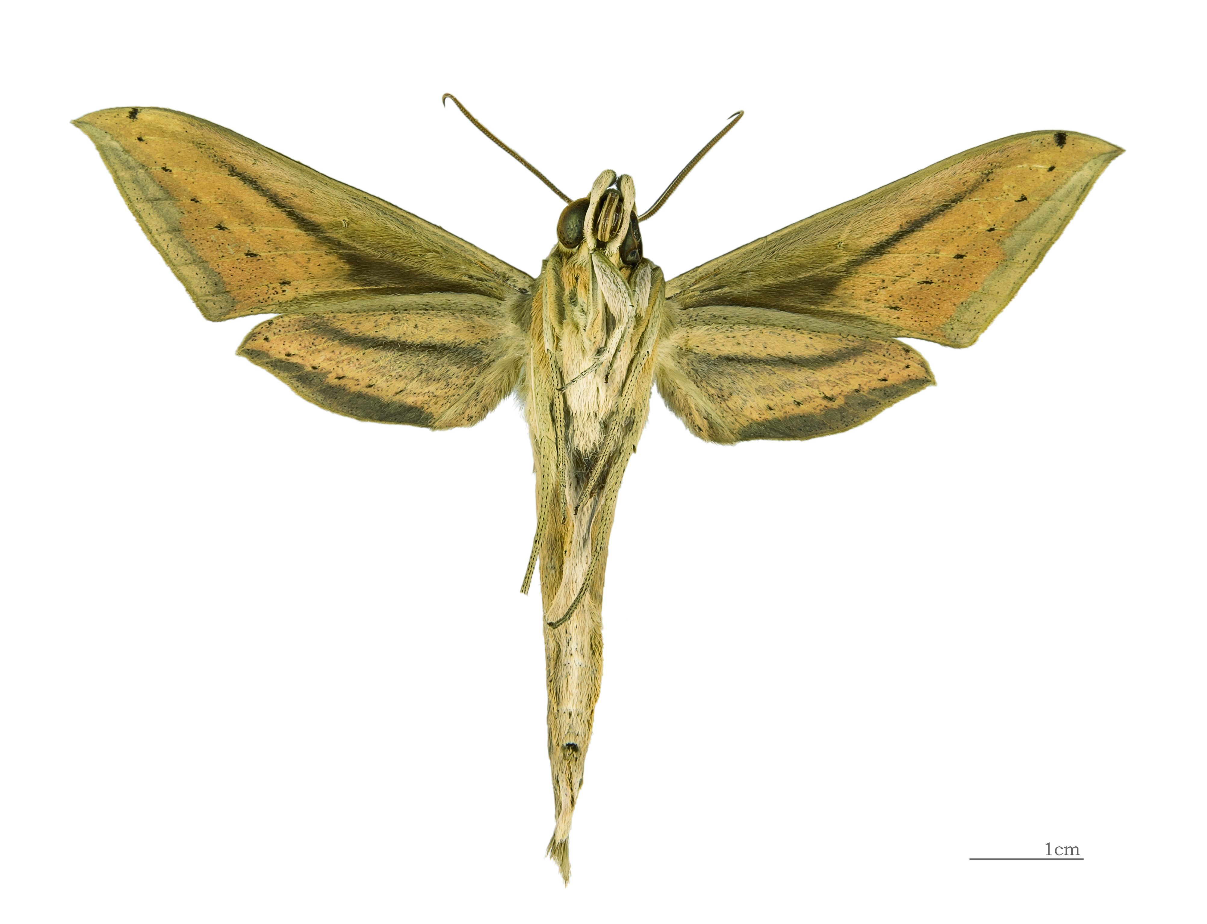 Xylophanes loelia - △ Ventral side